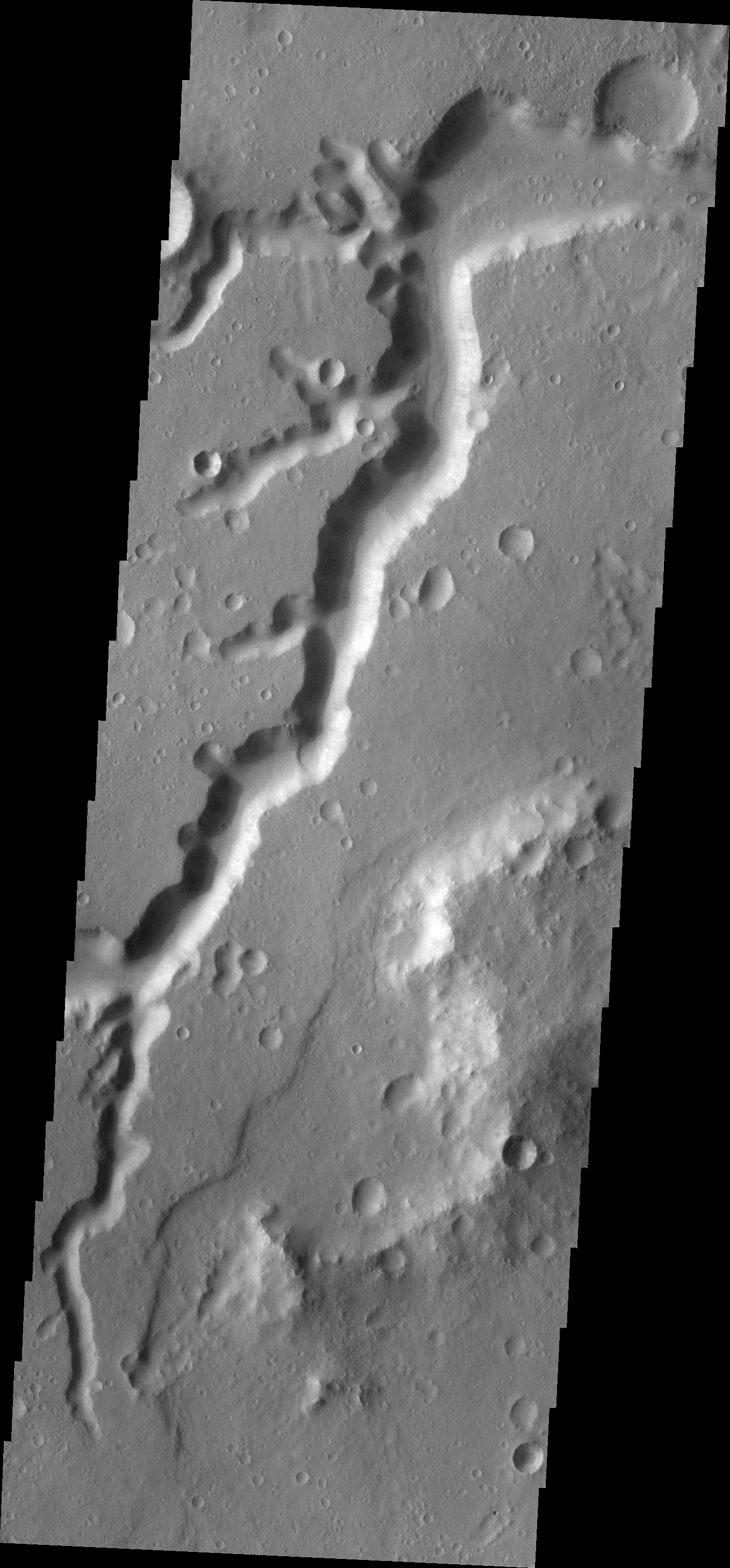 Nanedi Vallis, as seen by themis. Location is 5.8 N and 311 E. Image is 18.6 km wide.